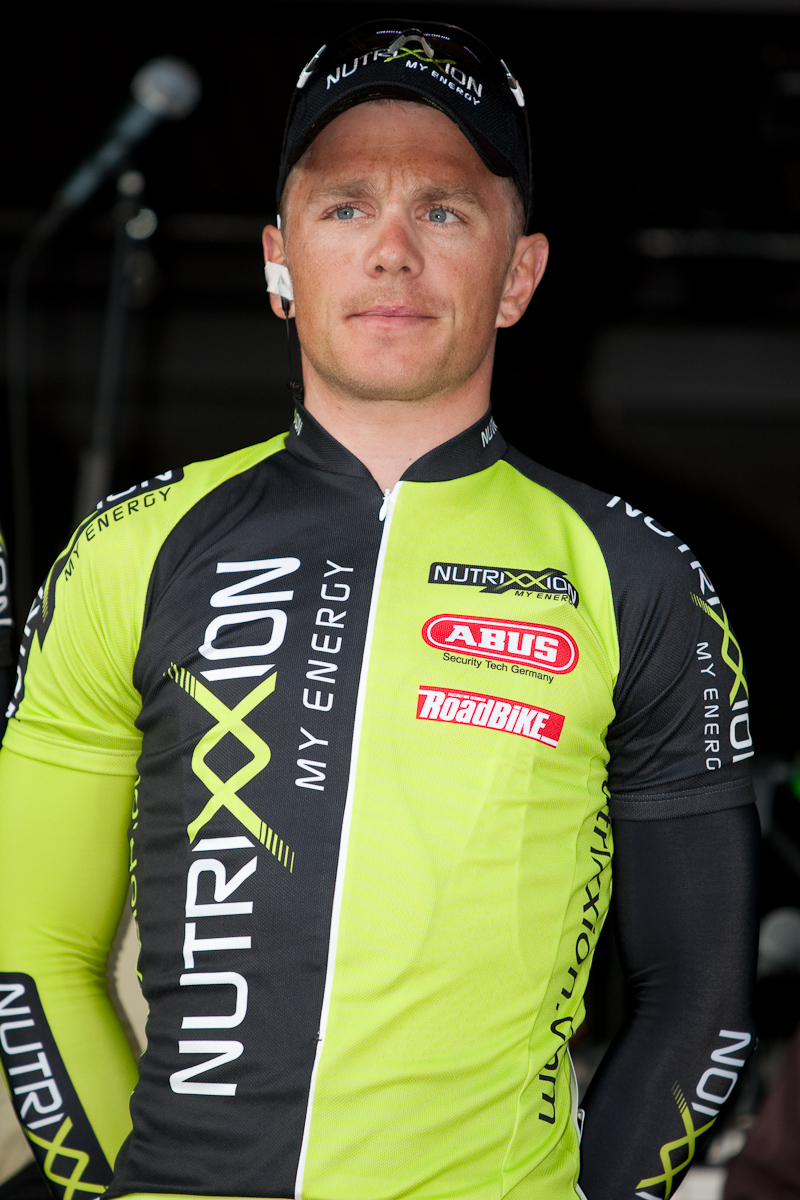 Eric Baumann, Eschborn-Frankfurt City Loop 2009